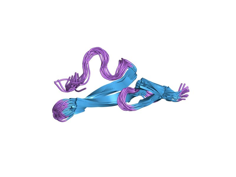 Cartoon representation of the molecular structure of protein registered with 1fsb code.